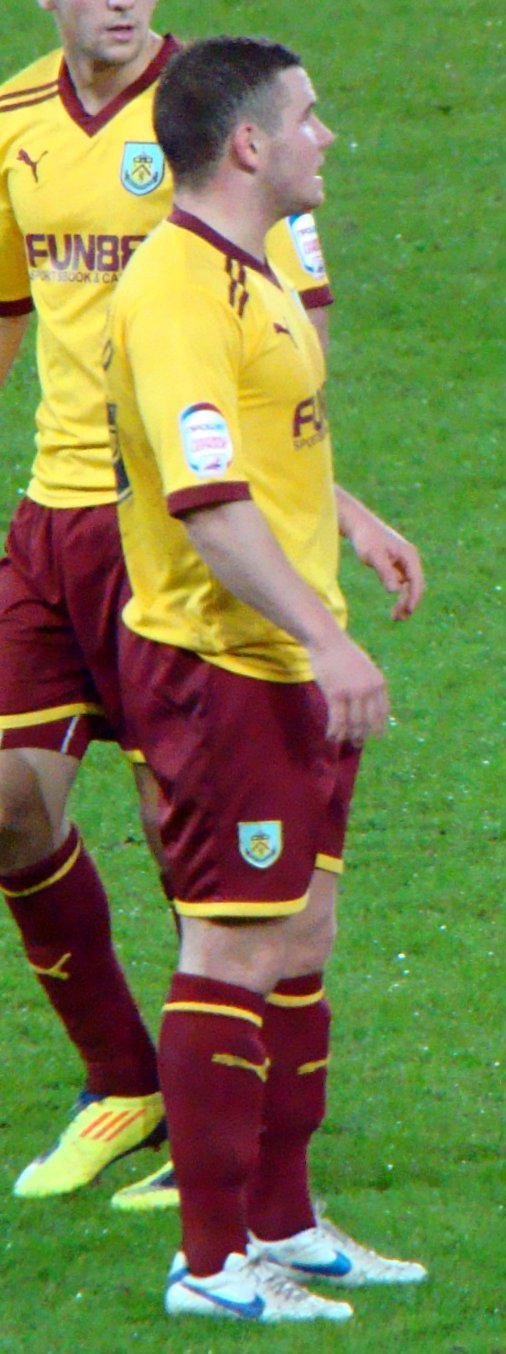 25/10/11 Cardiff V Burnley, Carling Cup, Cardiff City Stadium, Cardiff, Wales